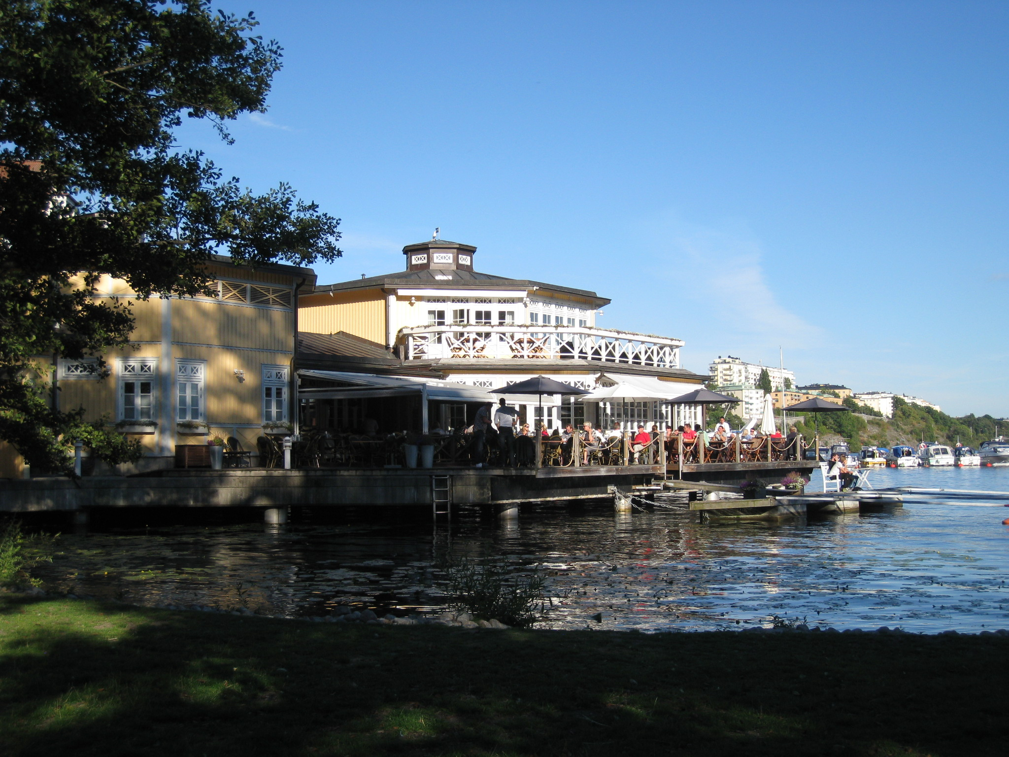 The restaurant Sjöpaviljongen, Tranebergs strand 4, Alvik, Bromma, Stockholm. View from the seaside at Alviks Strand.